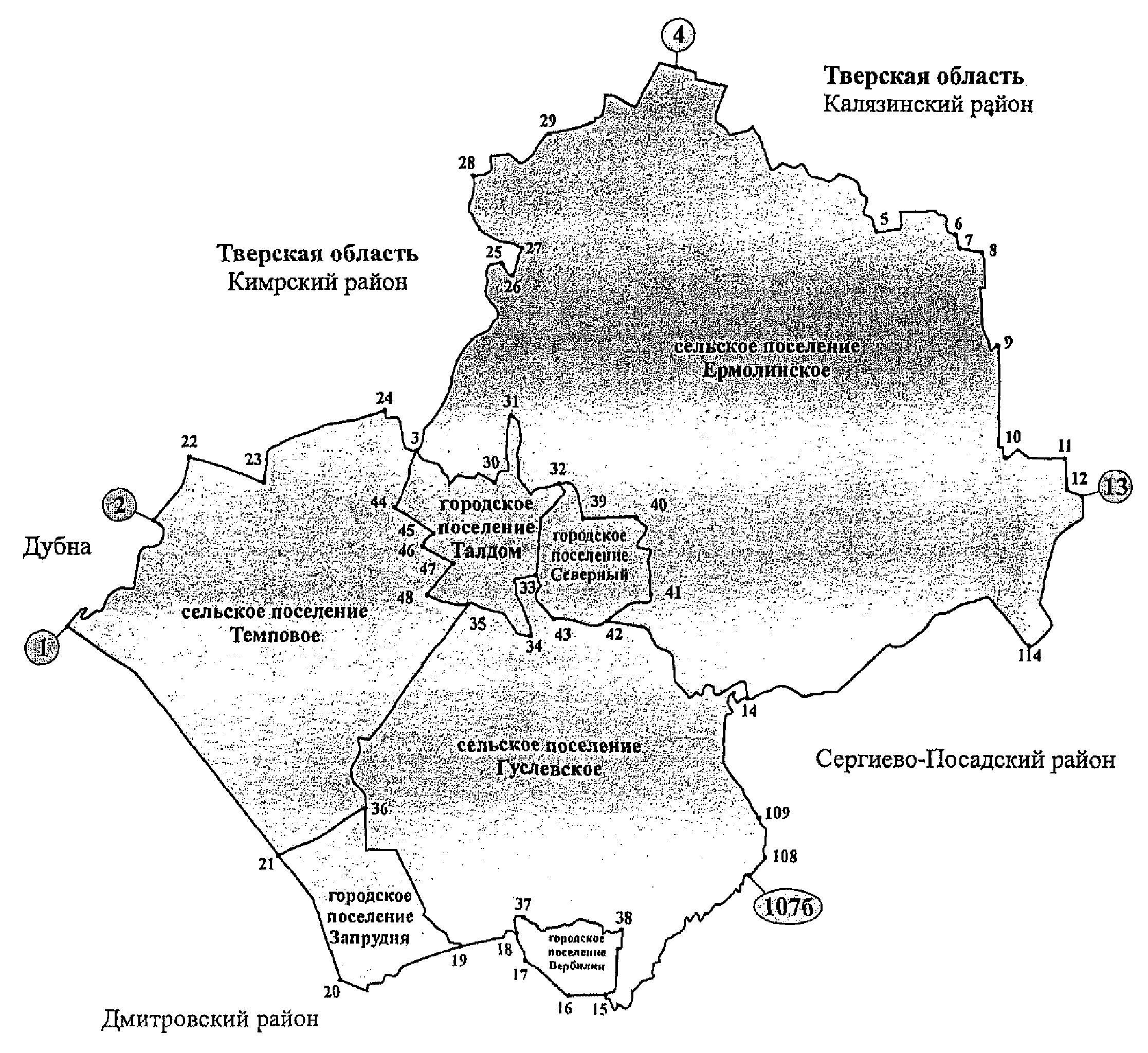 Map of Taldomsky district as of 2005.